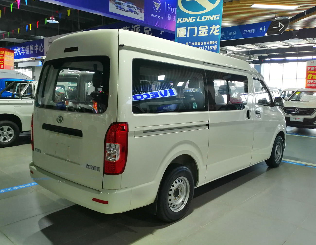 King Long Kairui photographed in Chongqing, China.